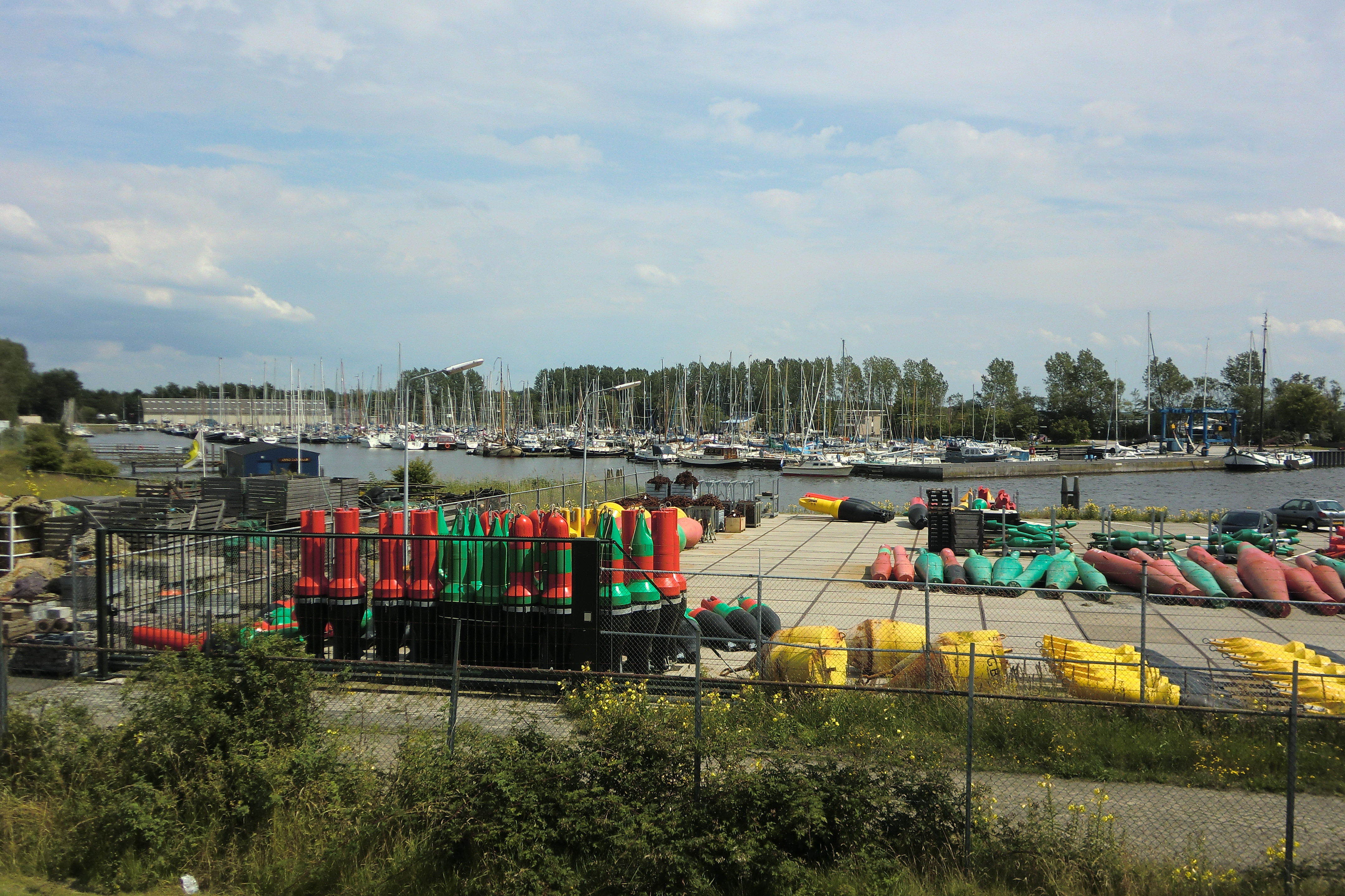 The storage yard for buoys and the marina in the Dutch harbour of Lauwersoog.